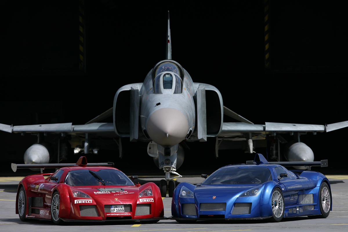 Two Gumpert "Apollo" sports car prototypes in front of a German Luftwaffe McDonnell Douglas F-4F Phantom II (serial 38+06), in 2006.